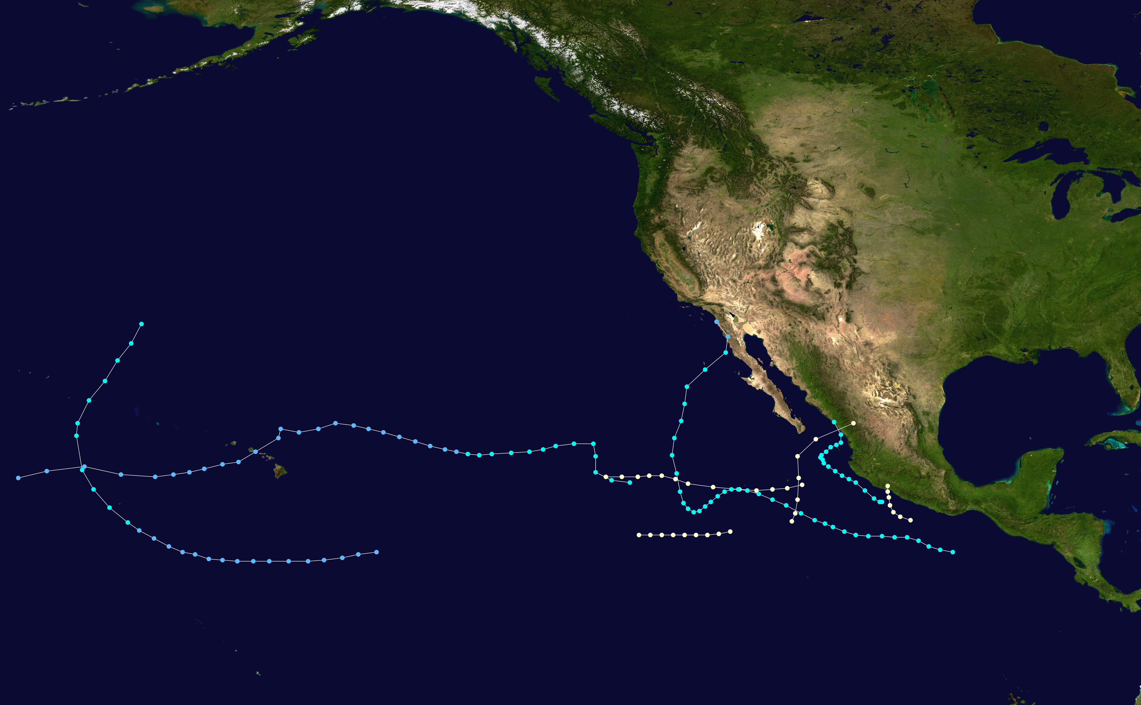 This map shows the tracks of all tropical cyclones in the 1963 Pacific hurricane season. The points show the location of each storm at 6-hour intervals. The colour represents the storm's maximum sustained wind speeds as classified in the Saffir-Simpson Hurricane Scale (see below), and the shape of the data points represent the type of the storm. Saffir–Simpson hurricane wind scale Tropical depression≤38 mph≤62 km/h Category 3111–129 mph178–208 km/h Tropical storm39–73 mph63–118 km/h Category 4130–156 mph209–251 km/h Category 174–95 mph119–153 km/h Category 5≥157 mph≥252 km/h Category 296–110 mph154–177 km/h Unknown Storm typeTropical cycloneSubtropical cycloneExtratropical cyclone / Remnant low / Tropical disturbance